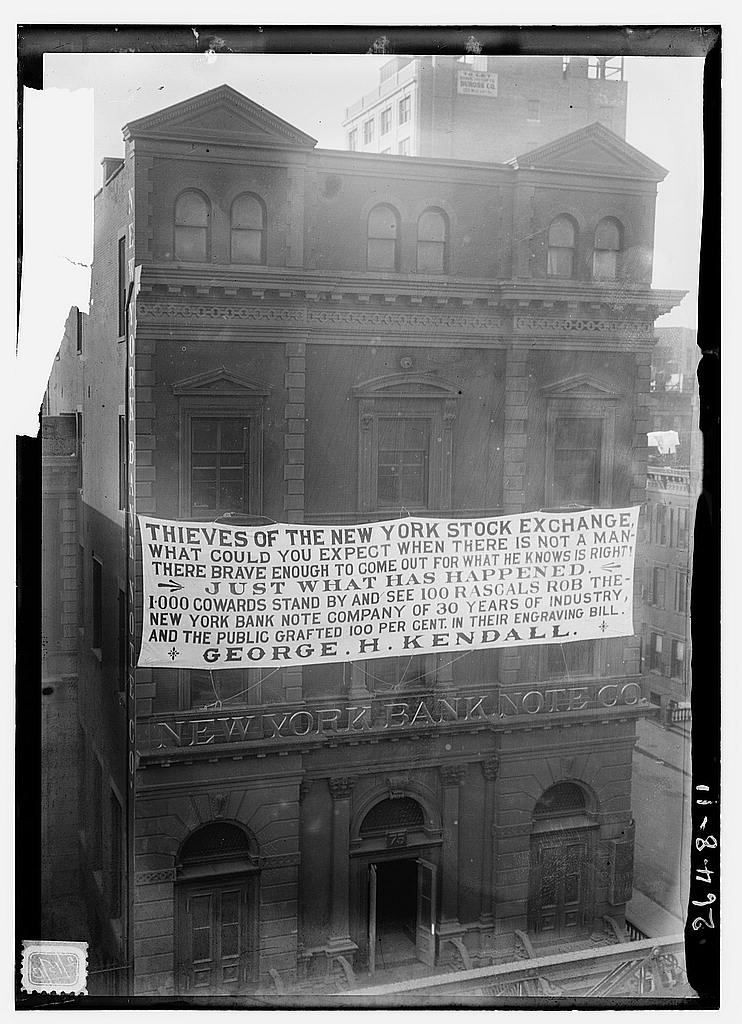 Bain News Service,, publisher. [New York Bank Note Co. notice] by George H. Kendall [no date recorded on caption card] 1 negative : glass ; 5 x 7 in. or smaller. Notes: Title from unverified data provided by the Bain News Service on the negatives or caption cards. Forms part of: George Grantham Bain Collection (Library of Congress). Format: Glass negatives. Repository: Library of Congress, Prints and Photographs Division, Washington, D.C. 20540 USA, General information about the Bain Collection is available at Persistent URL: Call Number: LC-B2- 2648-11